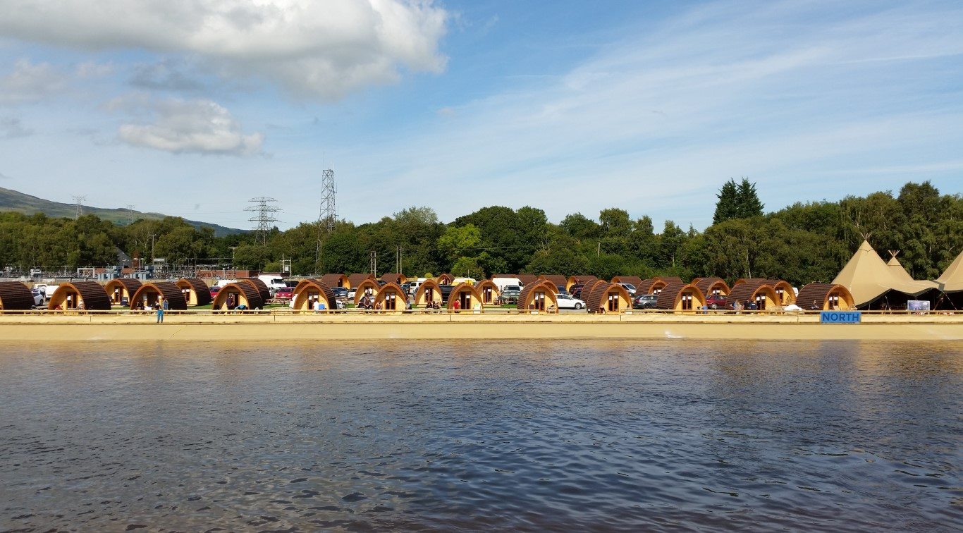 Residential pods at Surf Snowdonia